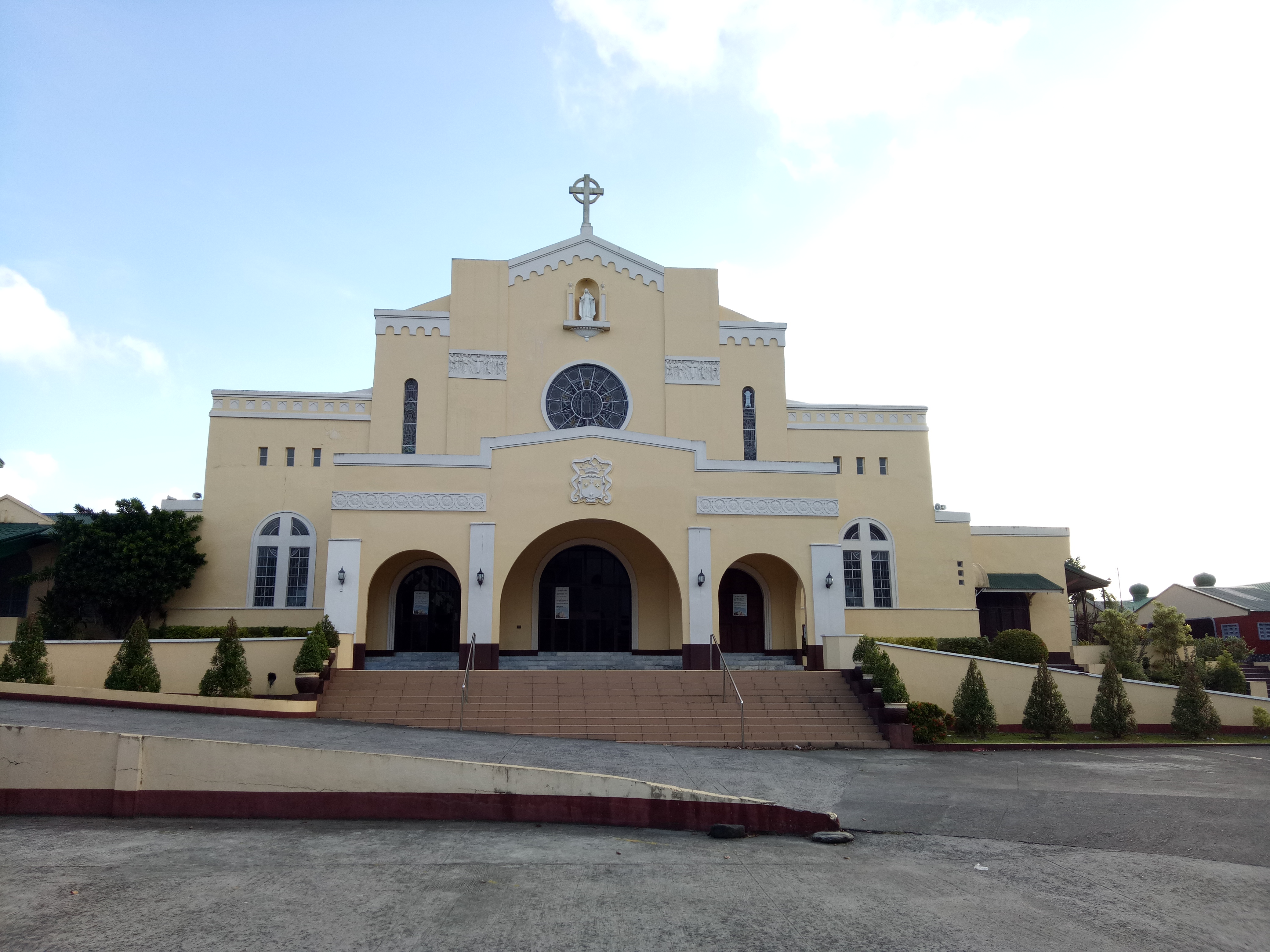 Our Lady of Mount Carmel Church in Lipa, Batangas in the Philippines